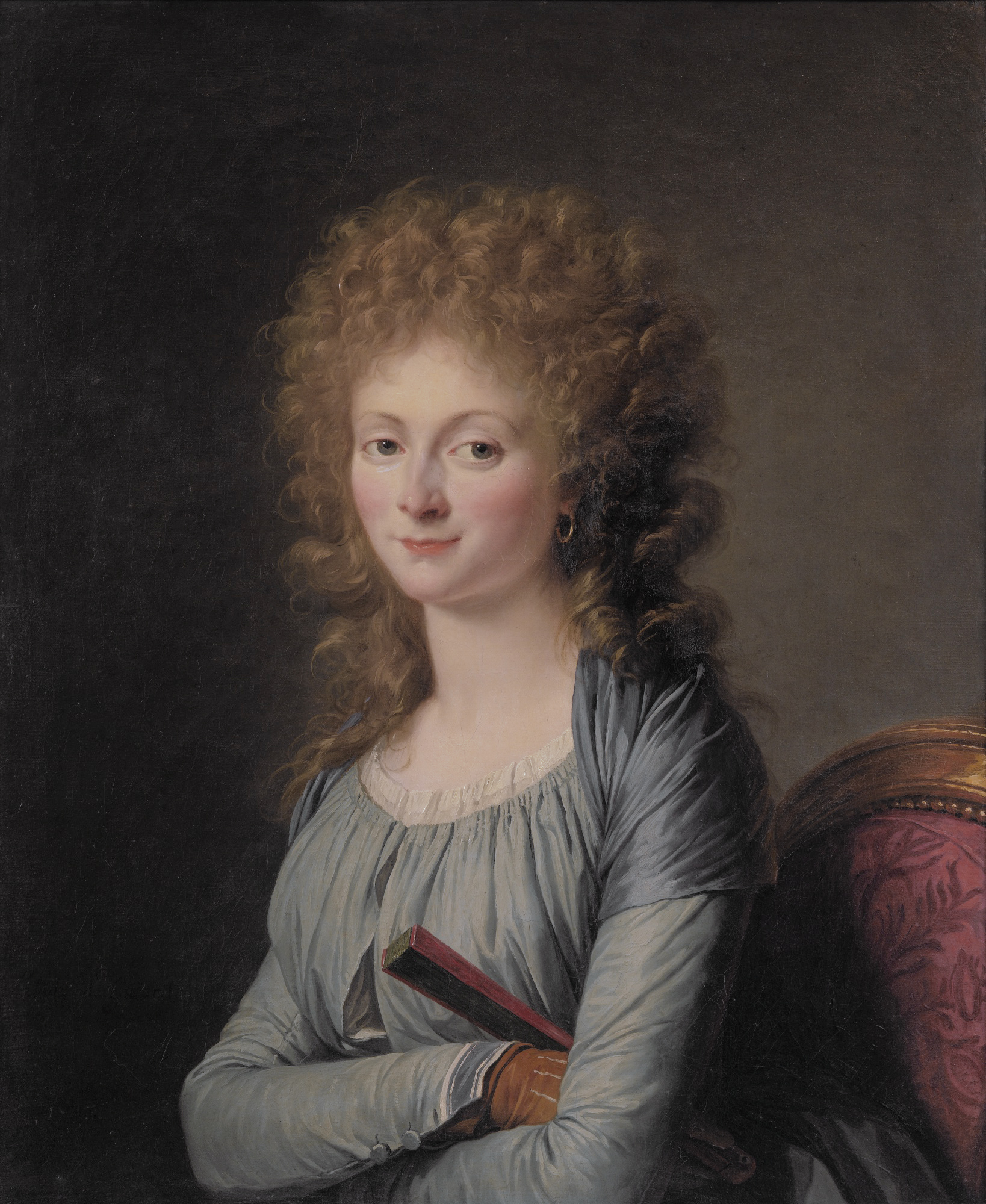 Jeanne-Victoire-Henriette de Montaud de Navailles, vicomtesse de Saint-Martin d’Arberonne, baronne d’Assat et de Mirepeix, later Duchesse d'Aiguillon (1770-1818)